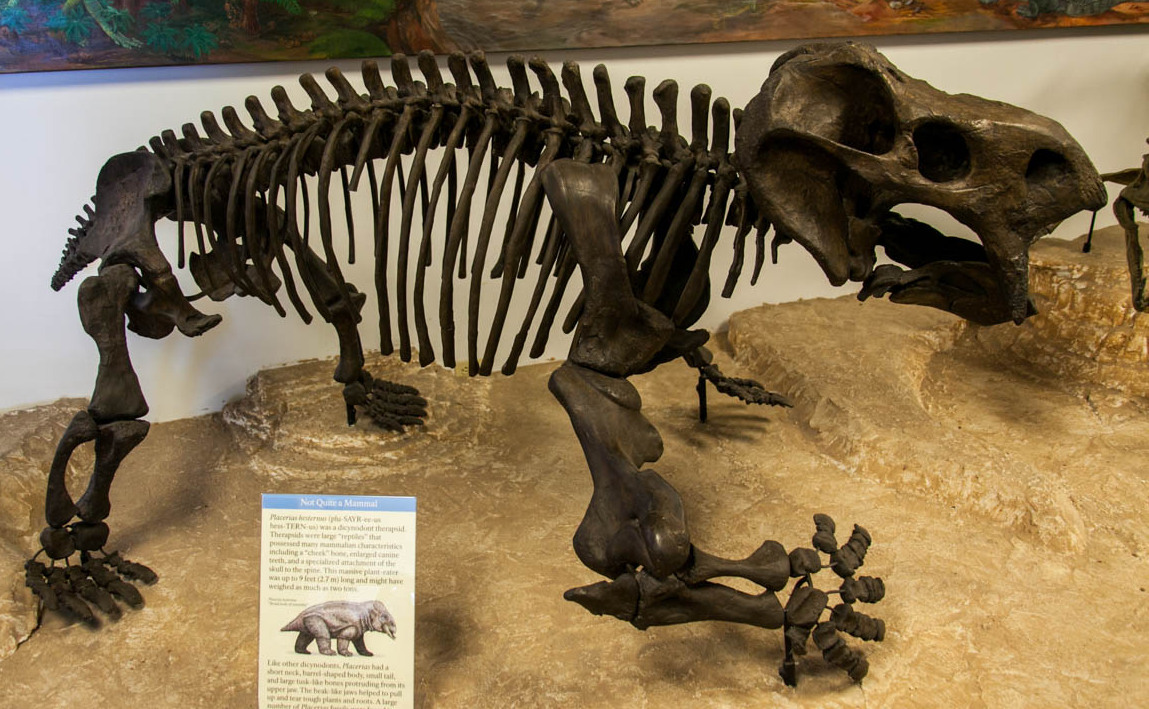 This is a very cool National Park southeast of Holbrook, AZ - well worth the detour. Heather Rice and I checked out this park as part of her American Southwest Sampler tour. We started at the southern entrance, stopping first at the Visitor Center and taking some small trails to look at the petrified wood up close and personal. The colors are amazing. We walked to the Agate House - very impressive. All sorts and sizes of petrified wood everywhere - I wondered how much is still there, uncovered. As you drive north, the landscape changes dramatically. Weird looking hills, Blue Mesa, and then you come to the Painted Desert lookouts. I wish we spent more time there but we still had a long drive ahead of us. Guess we have to go back again!! We visited this park in March 2014.